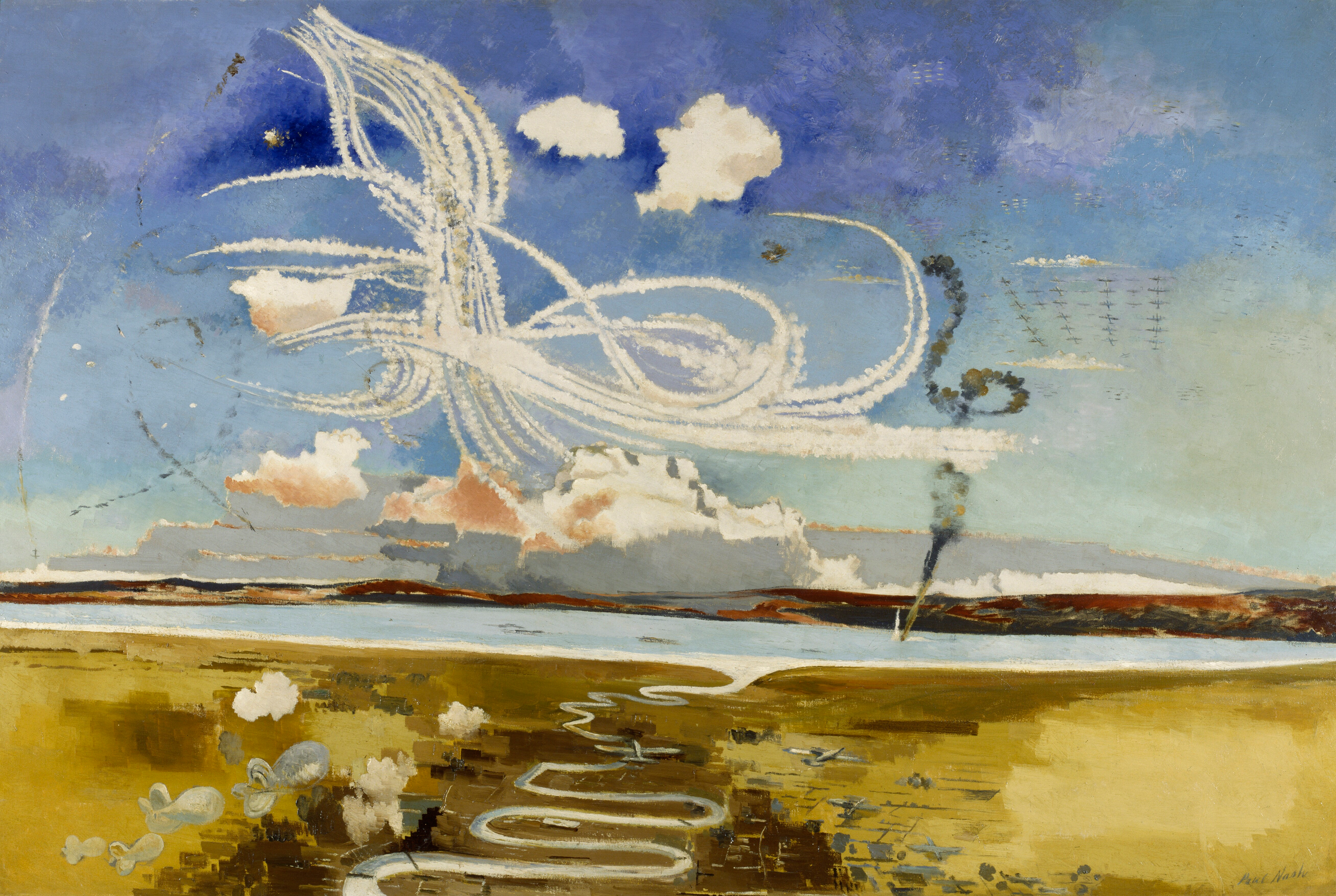 The painting is an attempt to give the sense of an aerial battle in operation over a wide area and thus summarises England's great aerial victory over Germany. The scene includes certain elements constant during the Battle of Britain - the river winding from the town and across parched country, down to the sea; beyond, the shores of the Continent, above, the mounting cumulus concentrating at sunset after a hot brilliant day; across the spaces of sky, trails of airplanes, smoke tracks of dead or damaged machines falling, floating clouds, parachutes, balloons. Against the approaching twilight new formations of Luftwaffe, threatening...